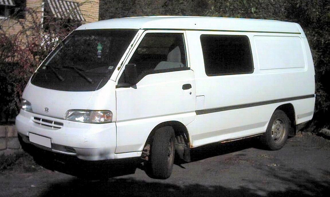 1995 Hyundai Grace Photo taken by me 22 Sept 2005 in Sweden